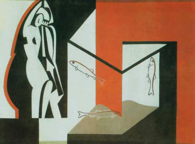 Still life with fishes